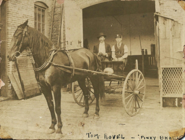 Tom Rovel (man with bowler hat and suit) was the 1st Fire Chief of the paid Fire Department. Pinky Bradly (in cap and vest) was his chauffer.